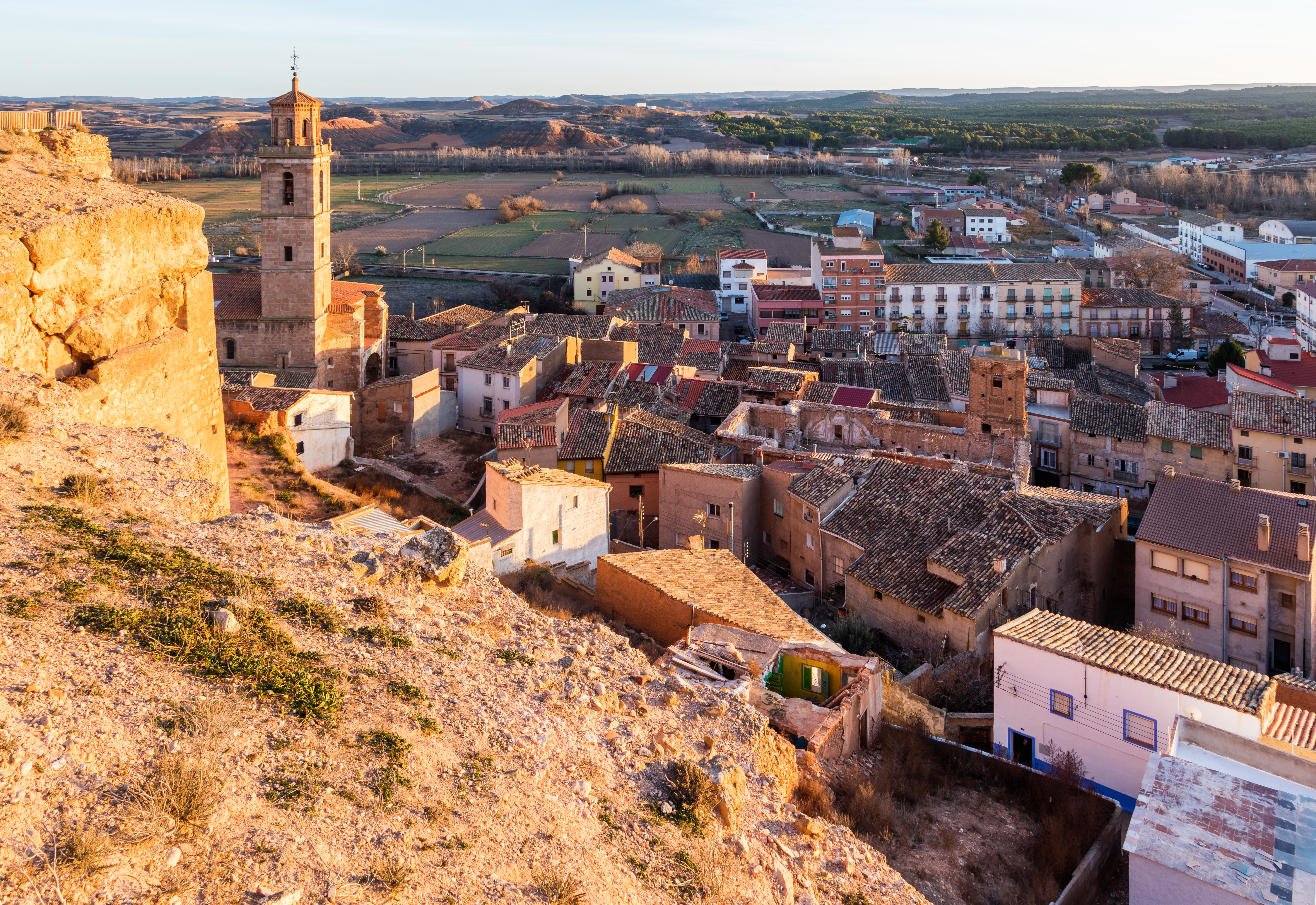 Ariza, Zaragoza, Spain